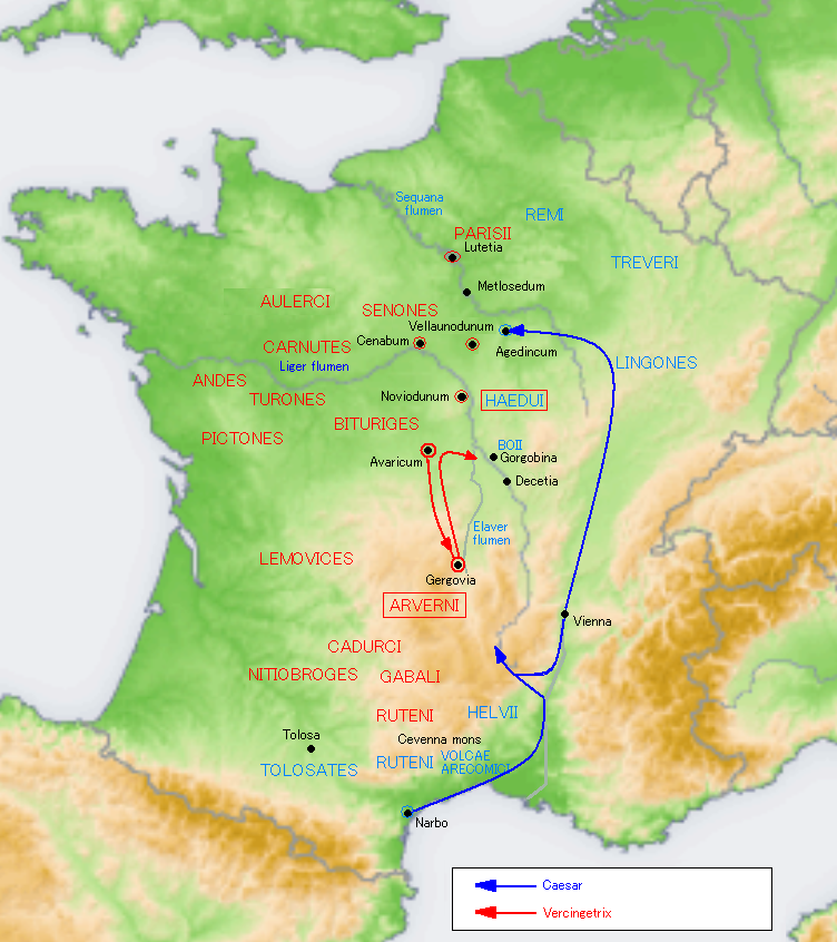 Julius Caesar's campaign to Agedincum against Vercingetorix in 52BC (Gallic Wars)